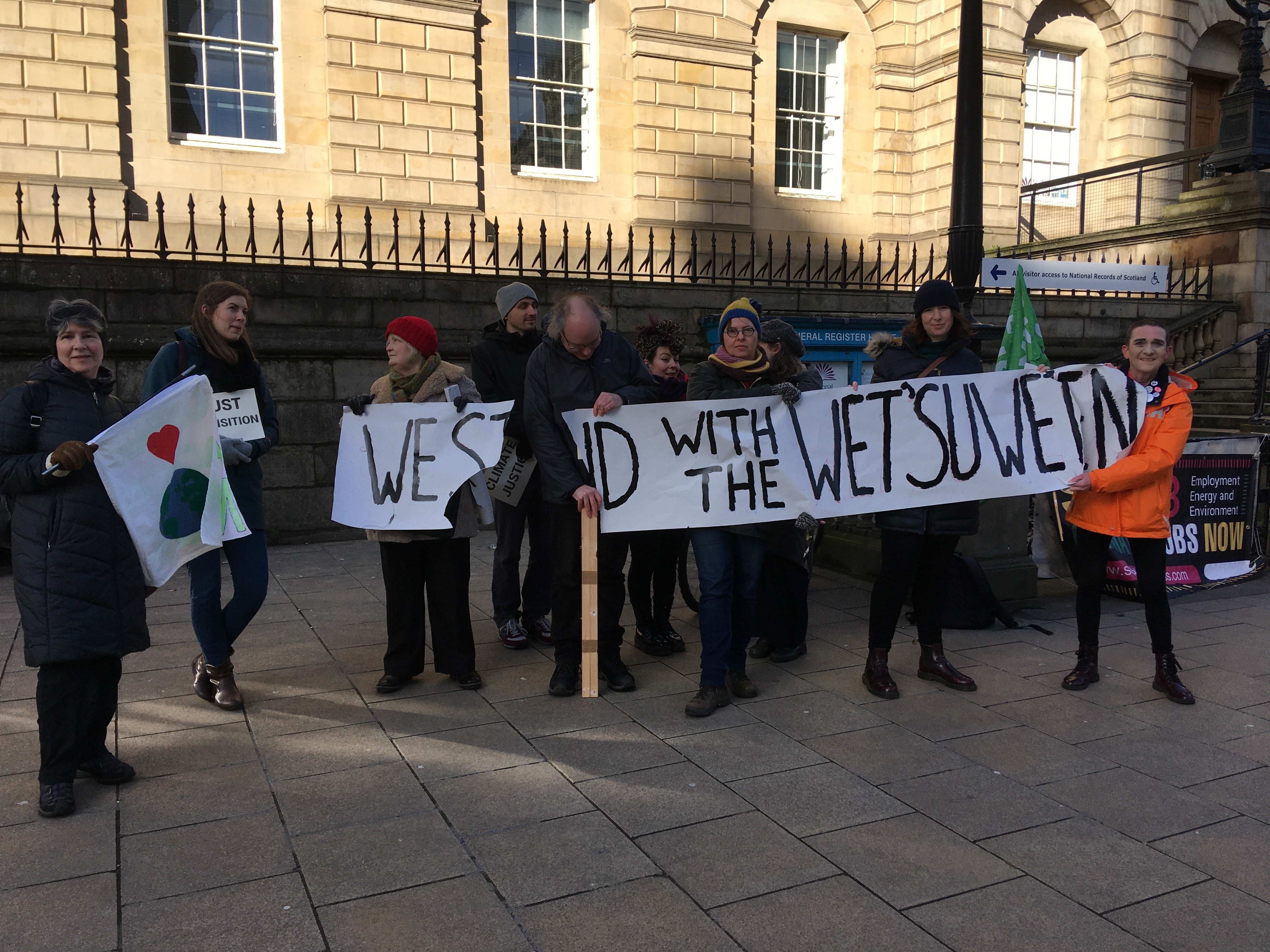 Protesters in Scotland hold up signs, including a large banner that reads "we stand with the Wetʼsuwetʼen"